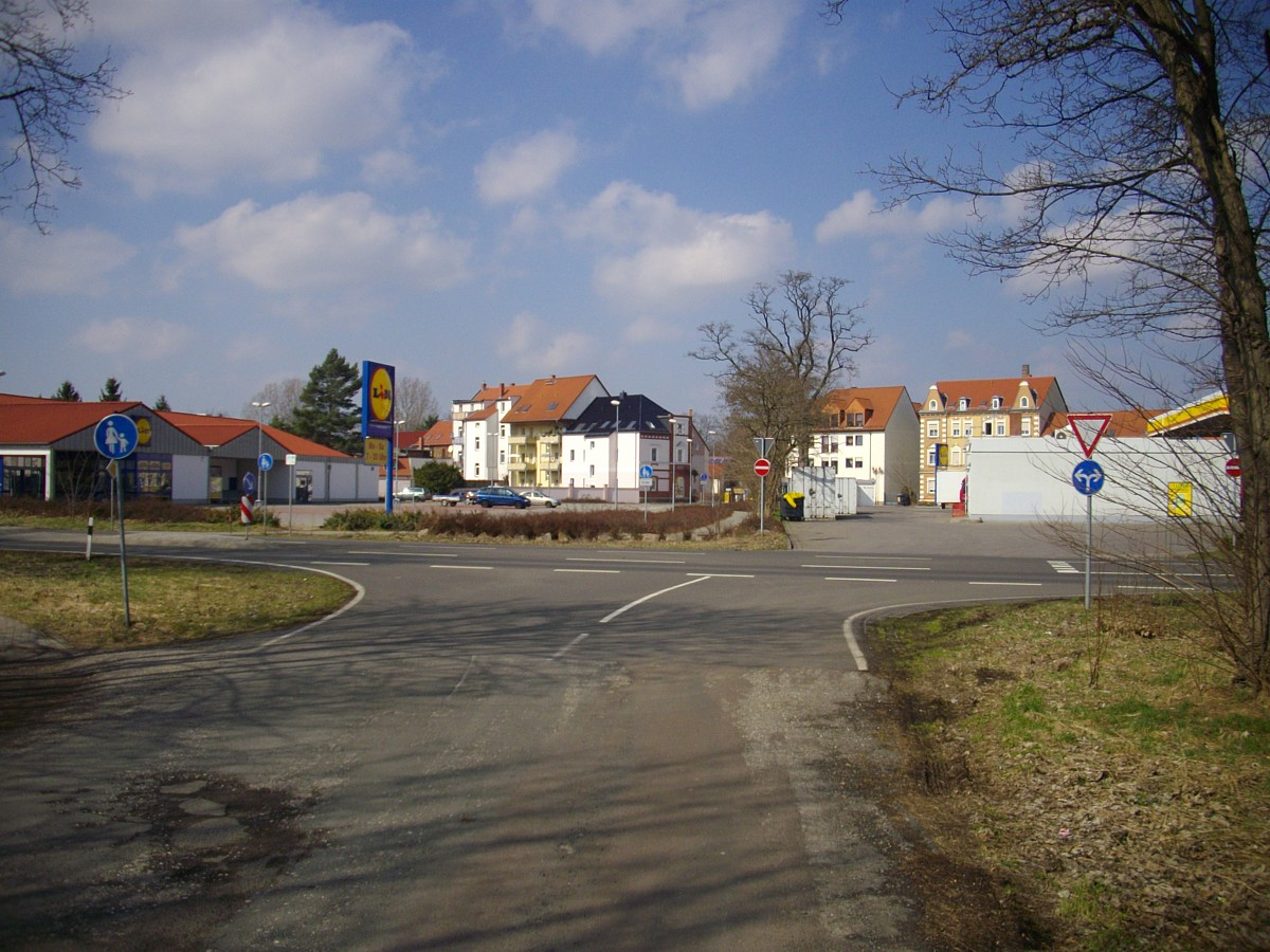 Pegau, Saxony, industrial area